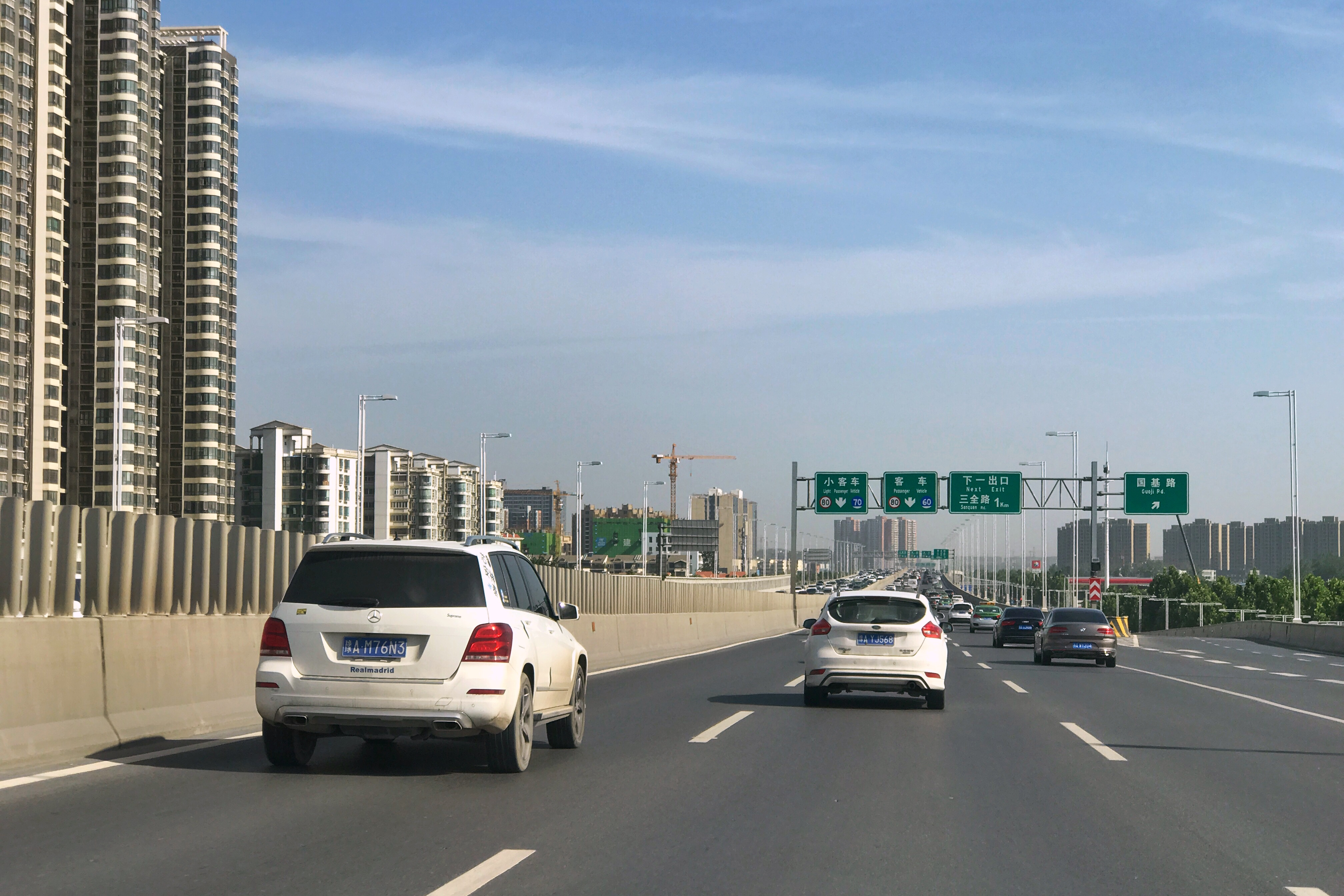 Zhongzhou Avenue north